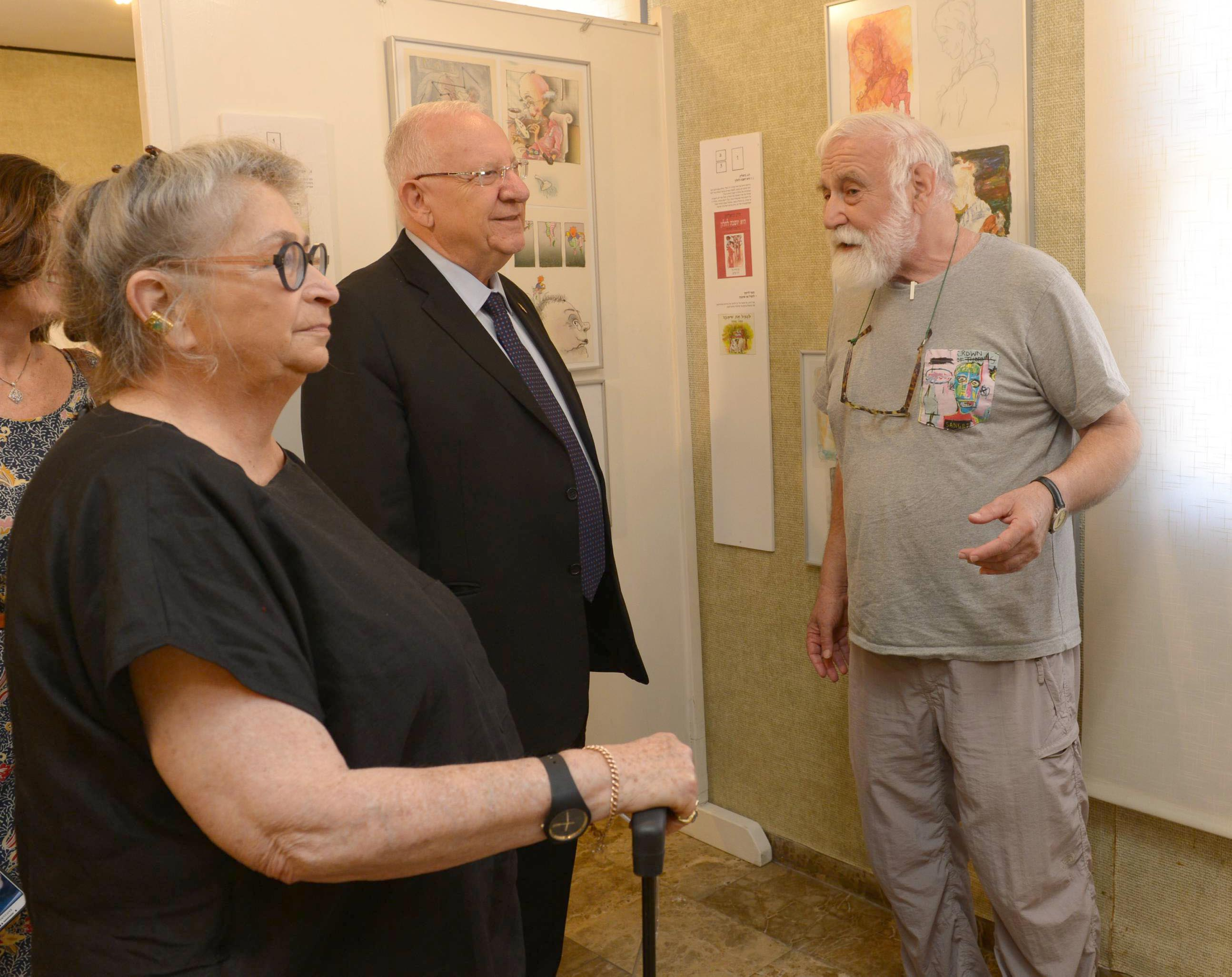 The president, Reuven Rivlin, and his wife visited the exhibition - 60 years of creation of the illustrator, Danny Kerman, displayed in Ra'anana. Monday, July 27, 2015. Photo credit: Mark Neiman / GPO.